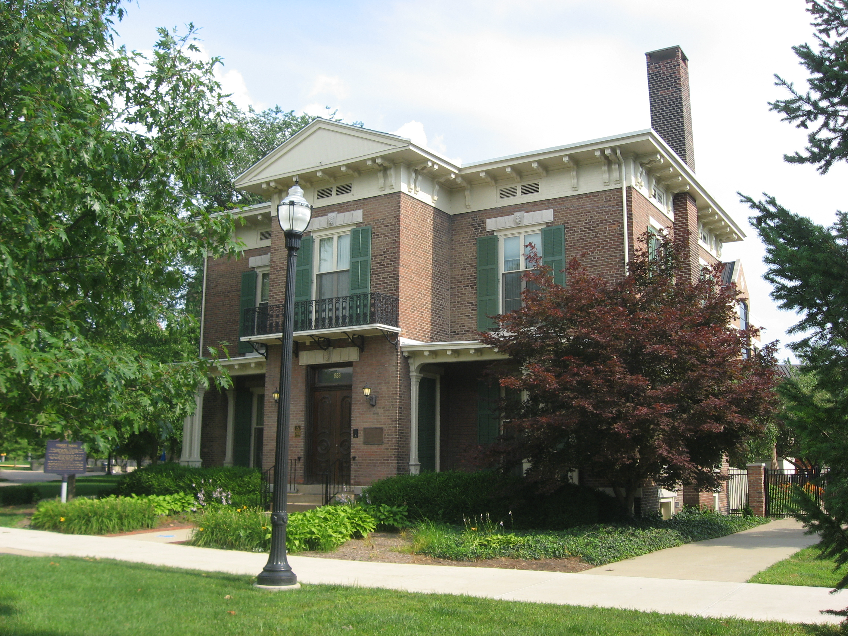 Front and western side of the Condit House, located on the campus of Indiana State University in Terre Haute, Indiana, United States. Built in 1860 and now the home of the university president, it is listed on the National Register of Historic Places.